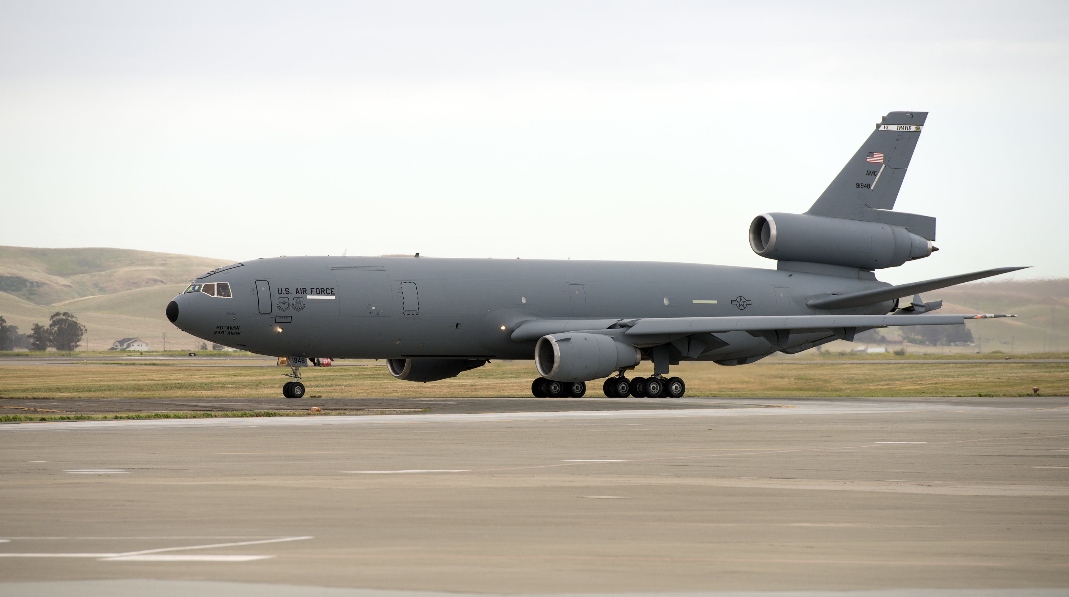 A KC-10 Extender is photographed at Travis Air Force Base, Calif., May 7, 2015. The KC-10 plays a key role in the mobilization of U.S. military assets, taking part in overseas operations far from home. These aircraft performed airlift and aerial refueling during the 1986 bombing of Libya (Operation Eldorado Canyon), the 1990-91 Gulf War with Iraq (Operations Desert Shield and Desert Storm), the 1999 NATO bombing of Yugoslavia (Operation Allied Force), War in Afghanistan (Operations Enduring Freedom), and Iraq War (Operations Iraqi Freedom and New Dawn). The KC-10 is expected to serve until 2043. (U.S. Air Force Photo by Heide Couch/Released)